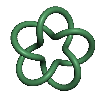 A Cinquefoil knot made with Apple Grapher.